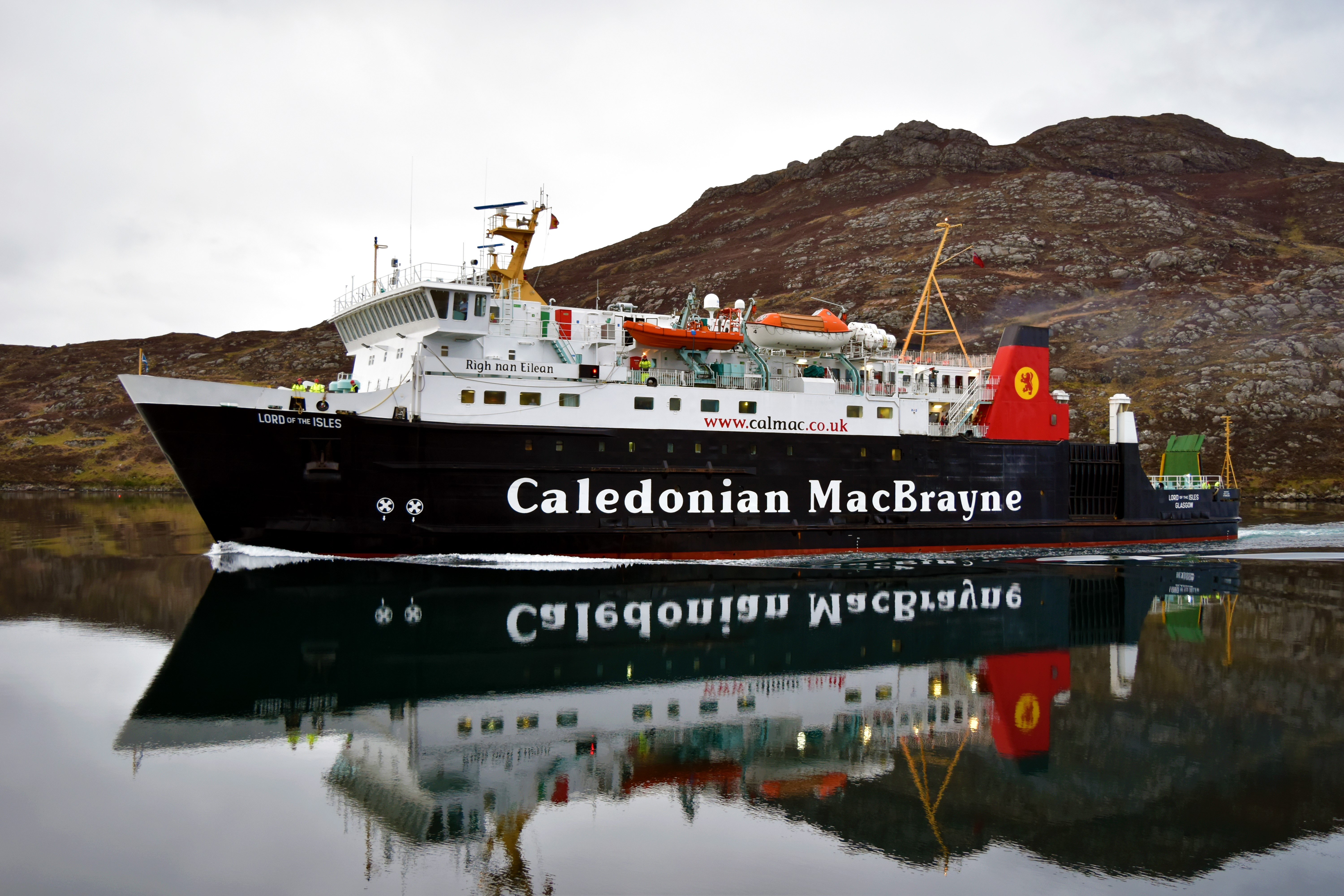 The CalMac ferry MV Lord of the Isles, which currently serves Lochboisdale and Armadale from Mallaig, approaches Lochboisdale on South Uist is very still waters on her final sailing of the day, 10 May 2017.